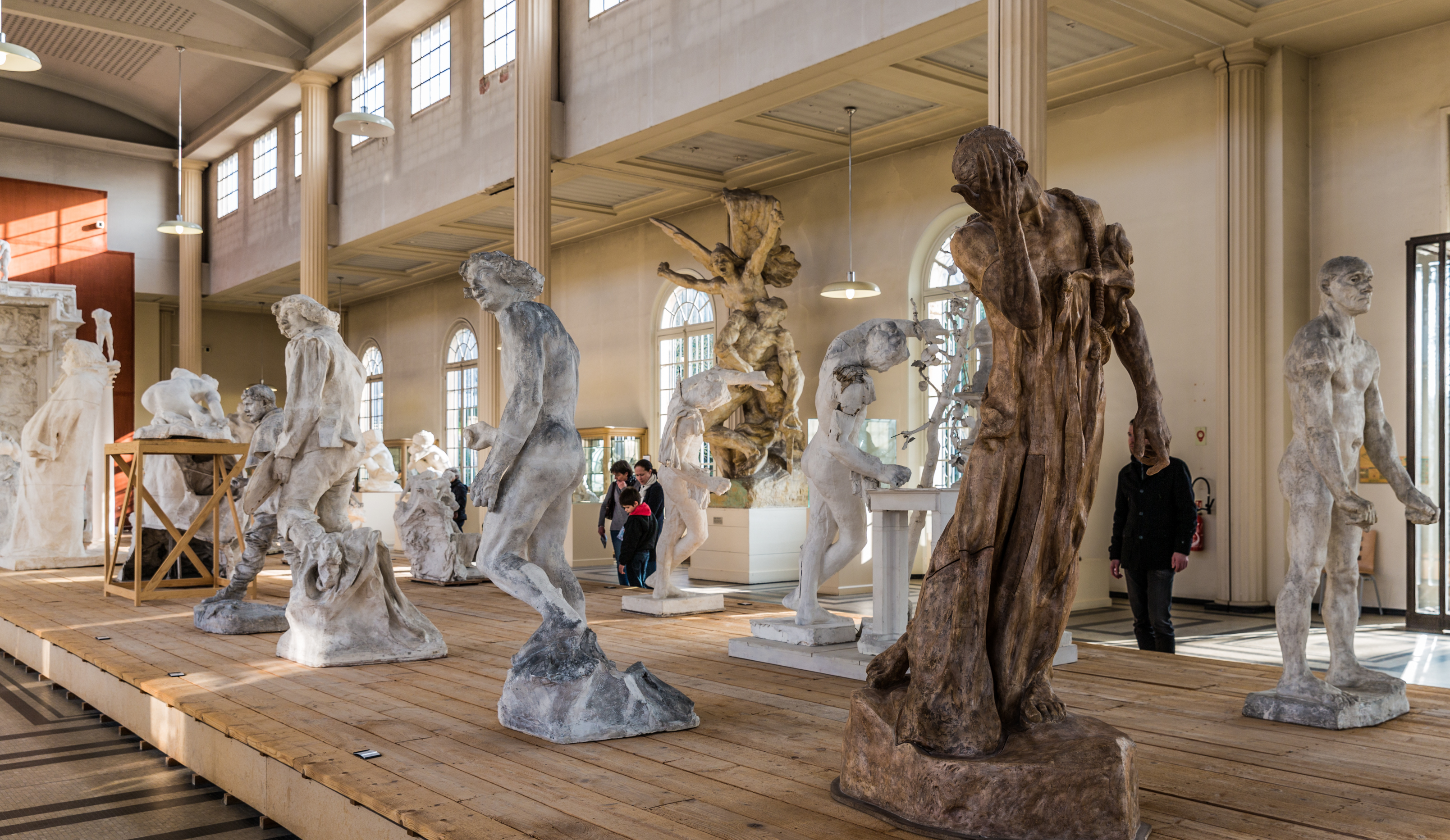 Auguste Rodin lived and worked in Meudon. This atelier is part of the Musée Rodin.